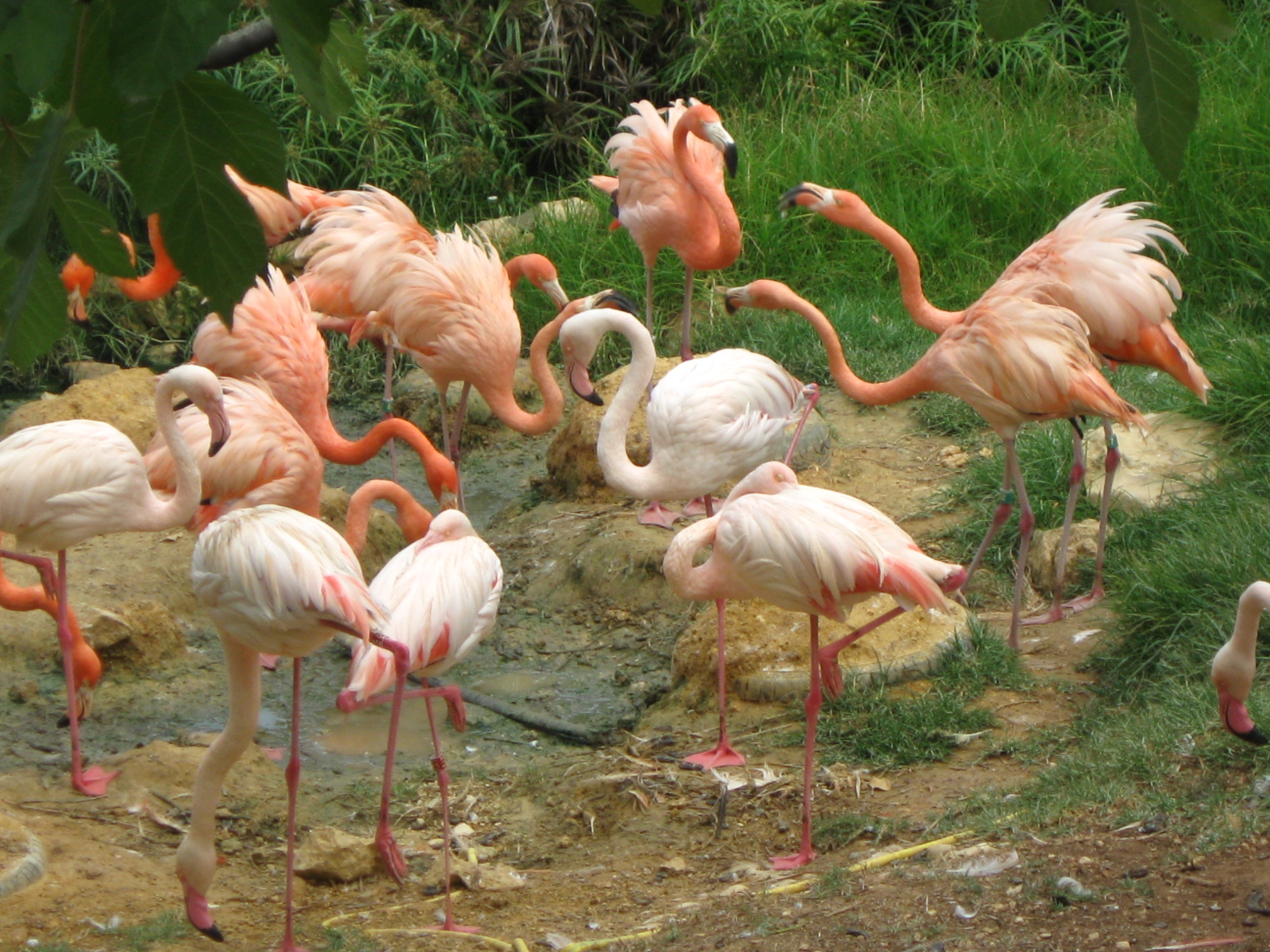 Flamingo exhibit at the Jerusalem Biblical Zoo.